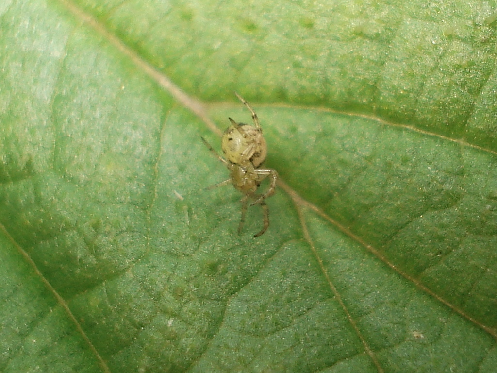 Theridion impressum